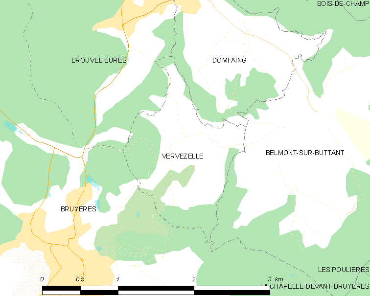 Map of French municipality Vervezelle